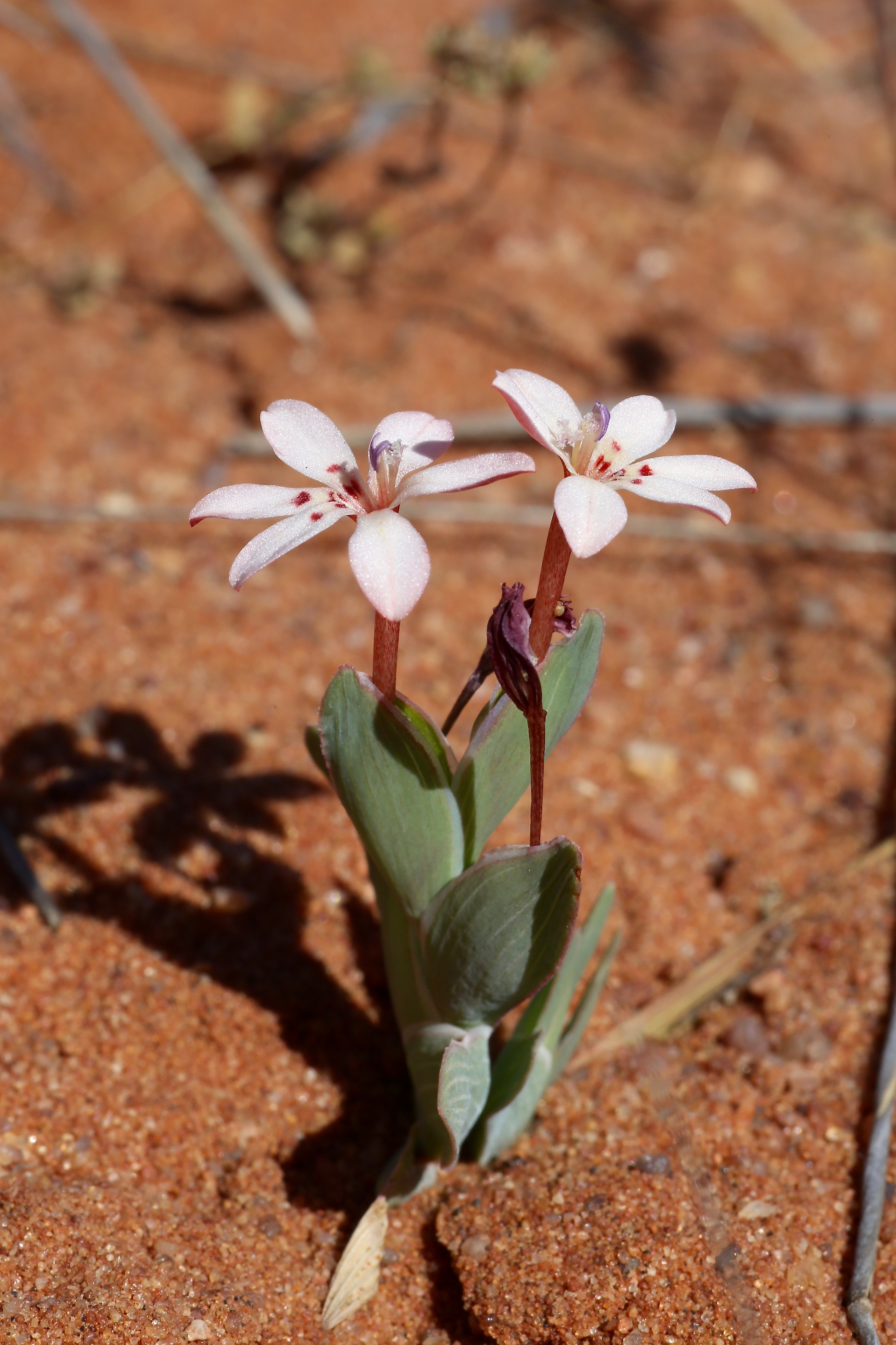 Namaqua National Park, Northern Cape, South Africa